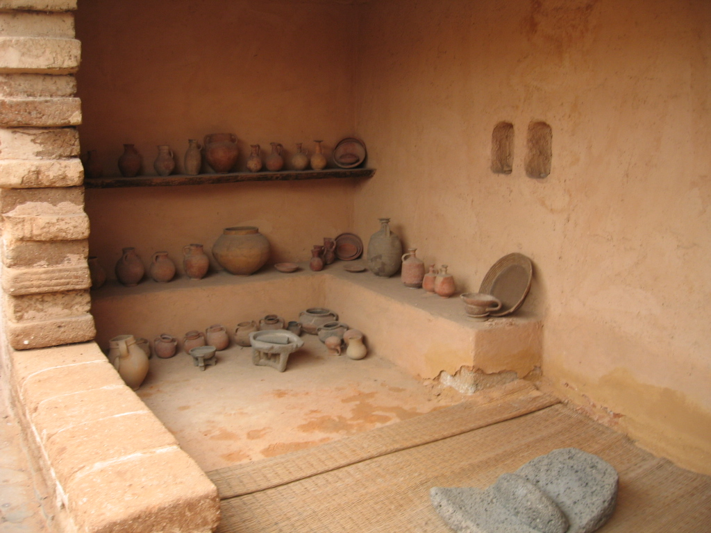 a reconstructed israelite house, Monarchy period, 10th-7th cents b.c.e. Eretz Israel Museum, Tel Aviv, Israel.